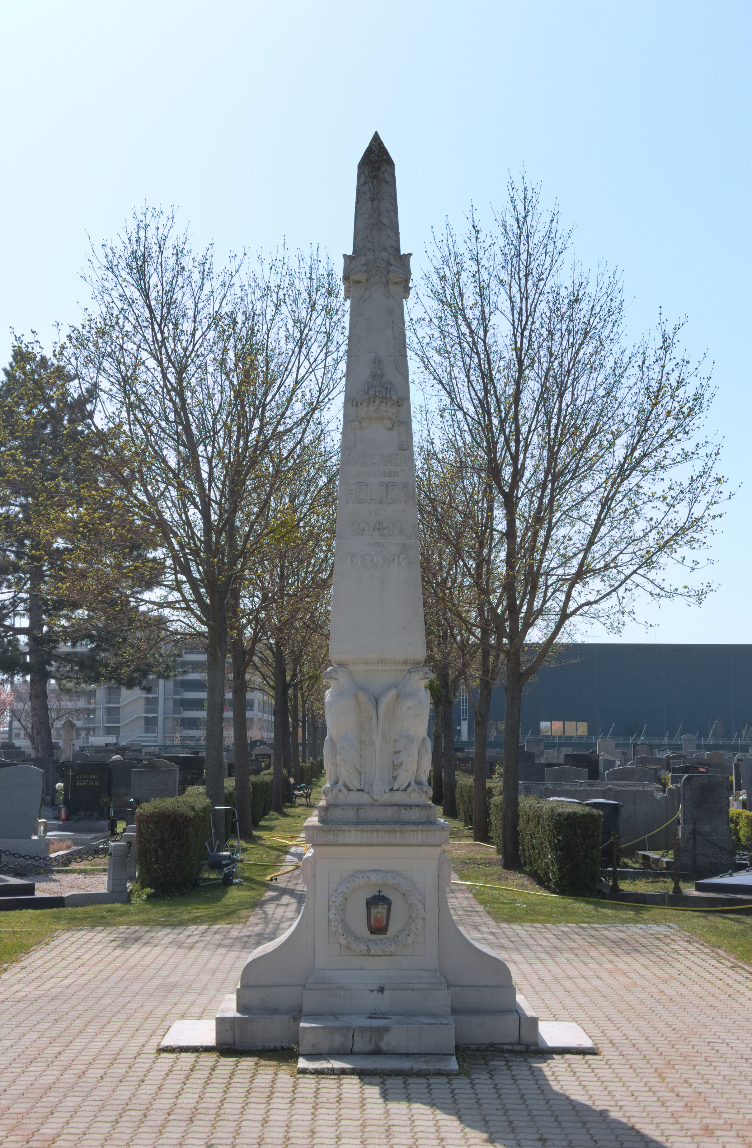 The obelisk on the war cemetry on the cemetery Atzgersdorf in Vienna, Austria